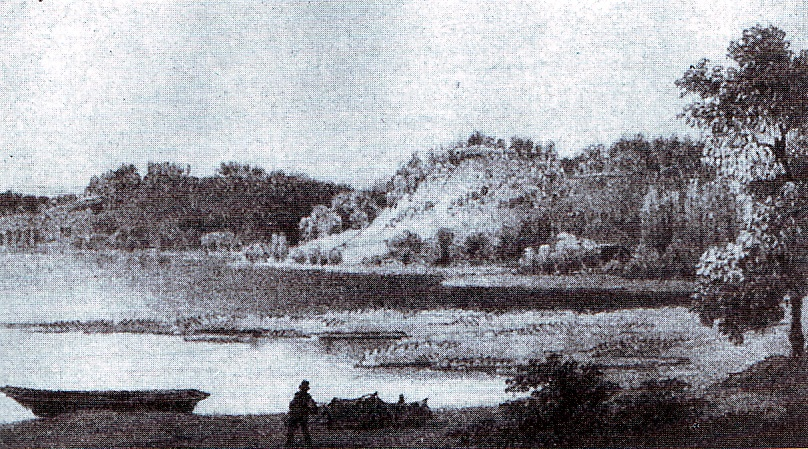 Bollerdorfer Höhe. Nach einem alten Stich. (German for: Bollersdorfer high/hill. According to a historic edging.) The edging shows a hill of the village Bollersdorf above the Schermützelsee. The Schermützelsee is a lake in Buckow, District Märkisch-Oderland, Brandenburg, Germany. The lake covers 137 hectare and is the largest water in the hill country „Märkische Schweiz“ and in the Märkische Schweiz Nature Park.